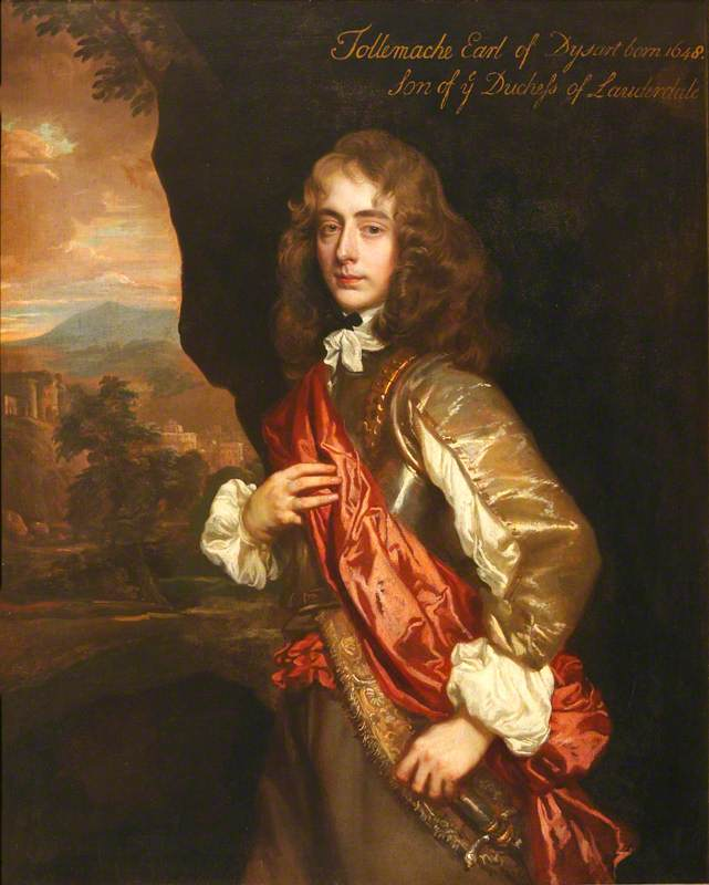 Oil painting on canvas, An Unknown Gentleman, called Lionel Tollemache, 3rd Earl of Dysart (1649-1727) by Sir Peter Lely (Soest 1618 – London 1680), circa 1660. Inscribed in yellow script, top right: Tollemache Earl of Dysart born 1648. / Son of ye Duchefs of Lauderdale. A three-quarter-length portrait of a young man, turned to the left, gazing at the spectator, long light brown natural hair falling to his shoulders, and wearing a breastplate over a pale brown silk coat, with slashed sleeves and under a scarlet sash warn over his right shoulder, he has an elaborate sword belt and his left hand is on his sword hilt whils his right hand figers his sash. Rocks and foliage to the right, and a distant view of trees and hills to the left. The traditional identification cannot be accepted without reserve.